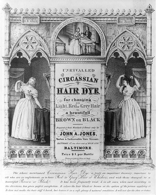 Advertisement Original text: Unrivalled Circassian hair dye for changing light red or grey hair to a beautifull brown or black.